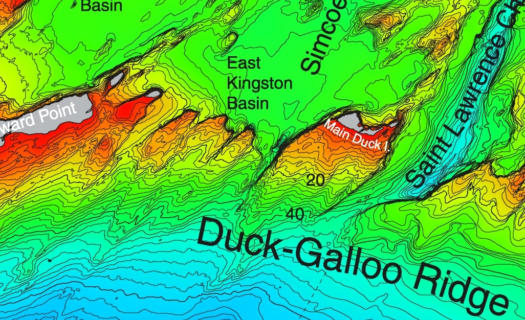 This detail from a NOAA map of Duck Galloo Ridge shows the Northeast corner of Lake Ontario. As lakes go Lake Ontario is relatively deep. The portion north of this ridge is significantly less deep. This detail shows Swetman Island, Timber Island, Main Duck Island, and Yorkshire Island, and some subsurface shoals.